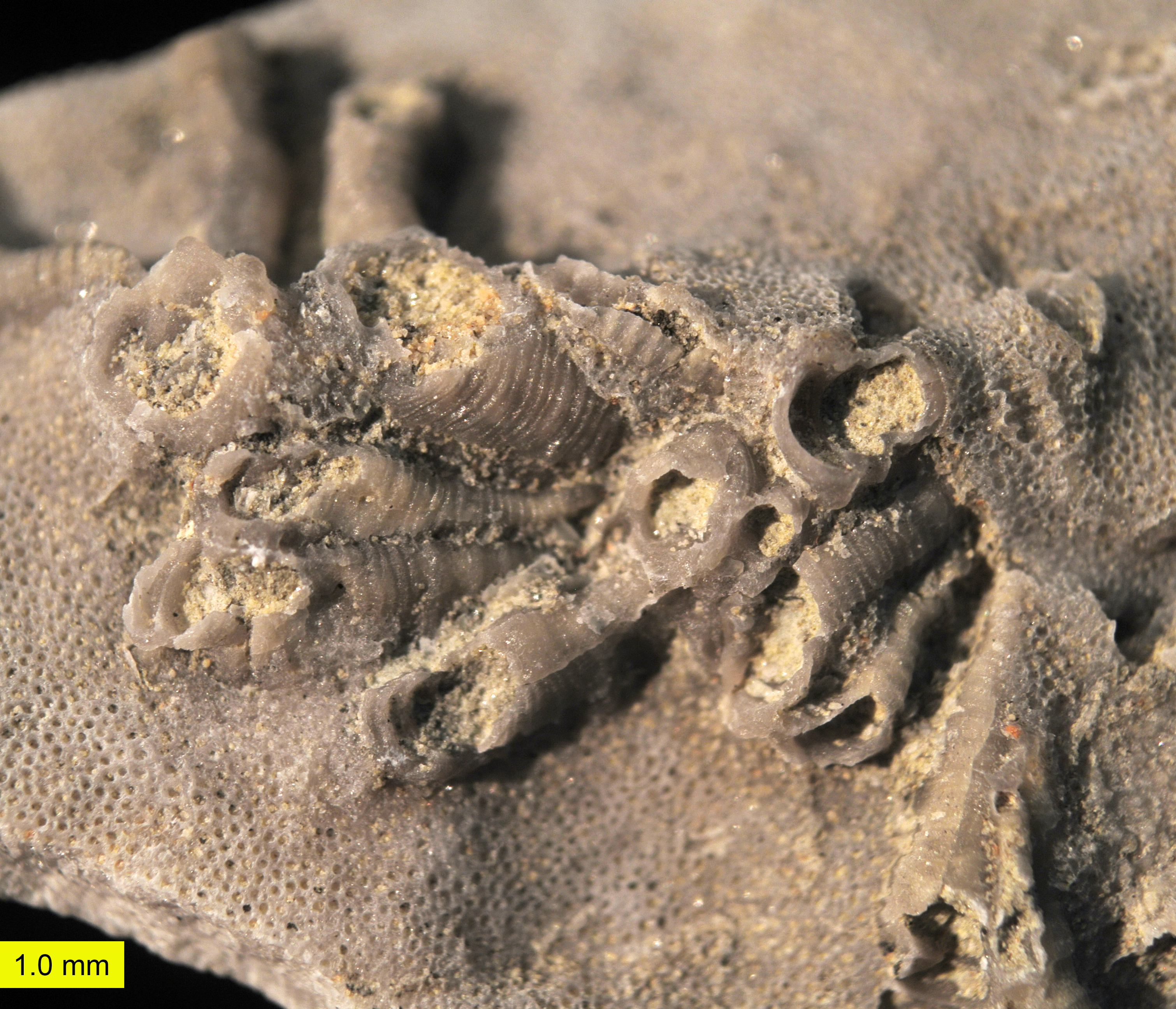 Cornulitids on a bryozoan substrate; Bellevue Member, Grant Lake Formation; Upper Ordovician of northern Kentucky.